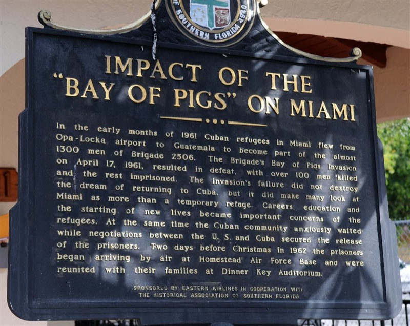 Fred Thompson at Bay of Pigs Museum